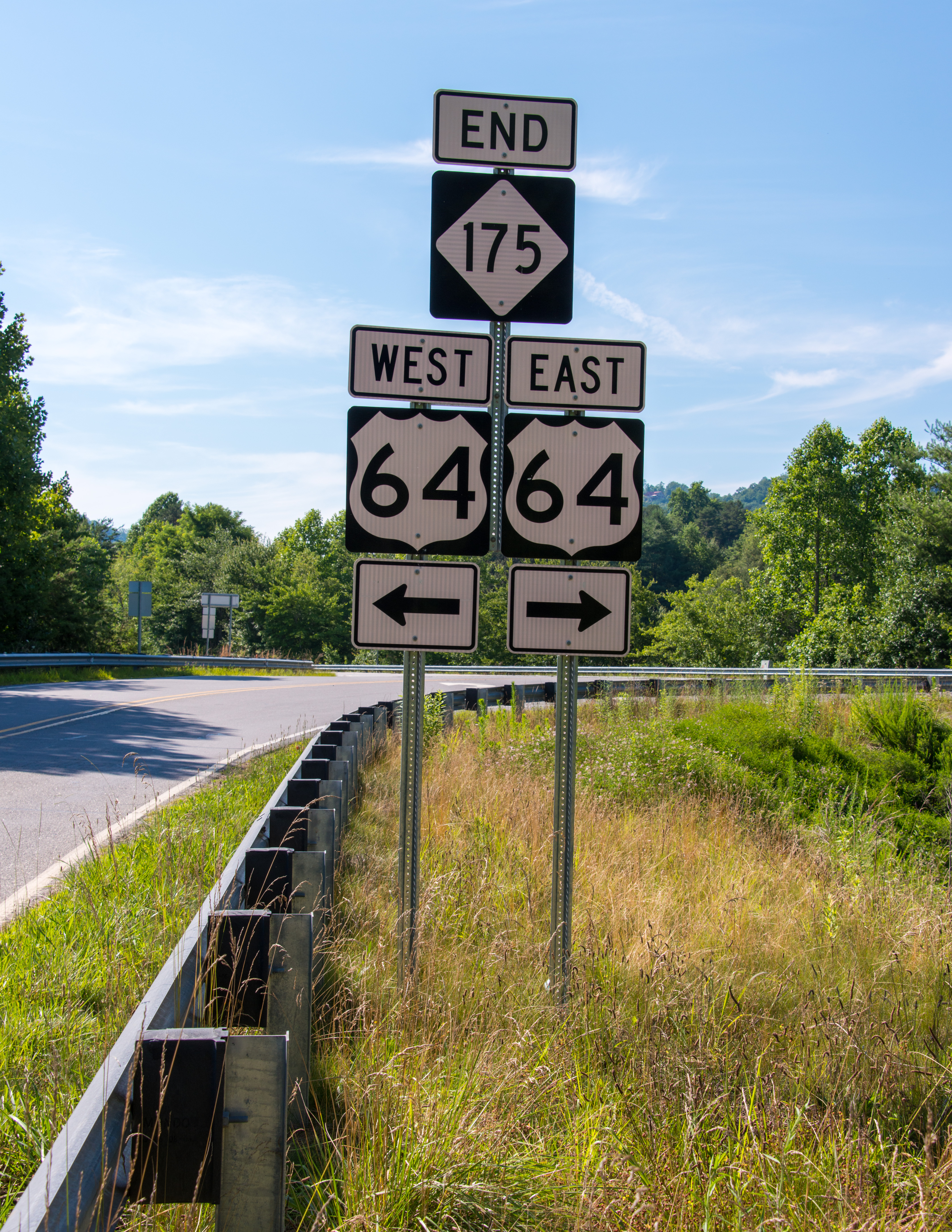 Northern terminus of North Carolina Highway 175, at U.S. Route 64, near Elf and Lake Chatuge.